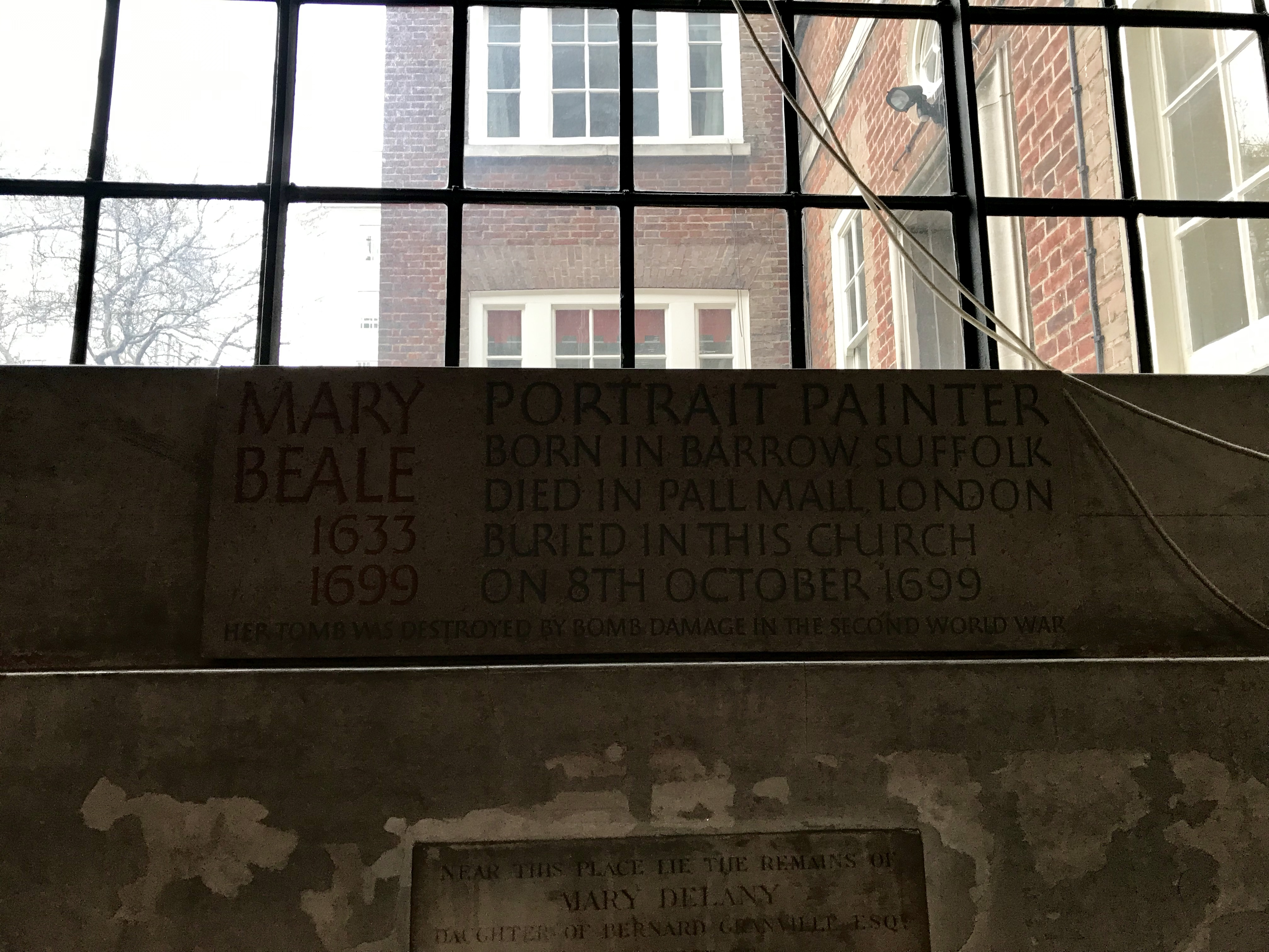 A memorial to Mary Beale in St James's Church, Piccadilly.